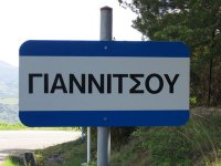 The entrance of Village Giannitsou